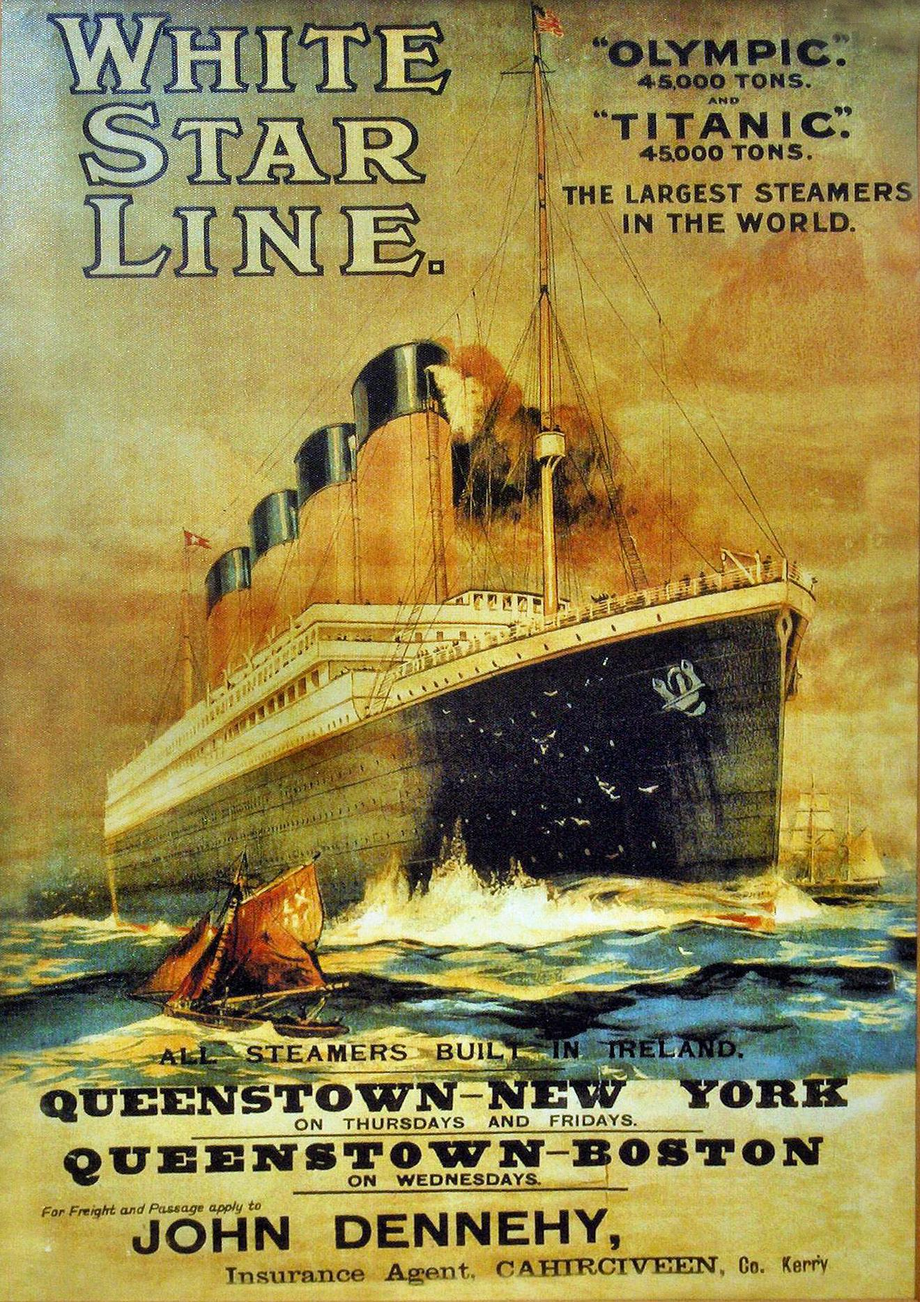 Poster of the "White Star Line" showing the Titanic